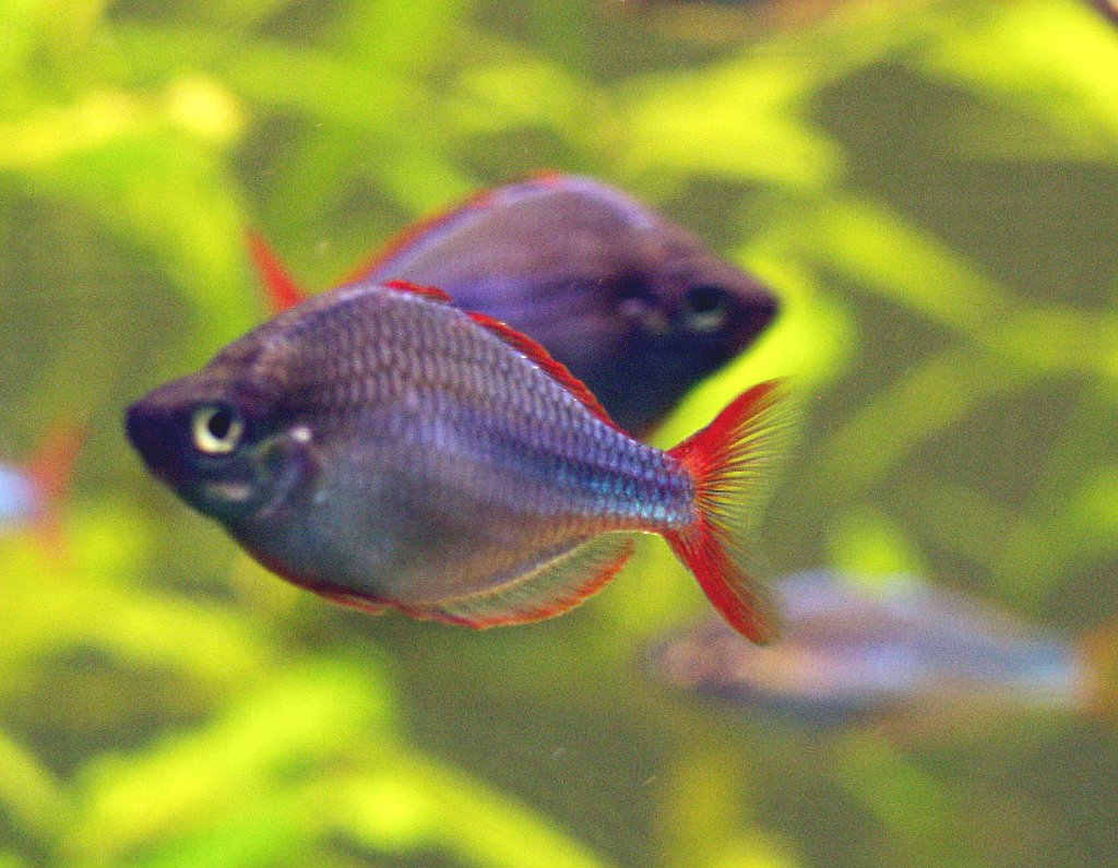 Dwarf rainbowfish (Melanotaenia praecox) at Zoo Duisburg